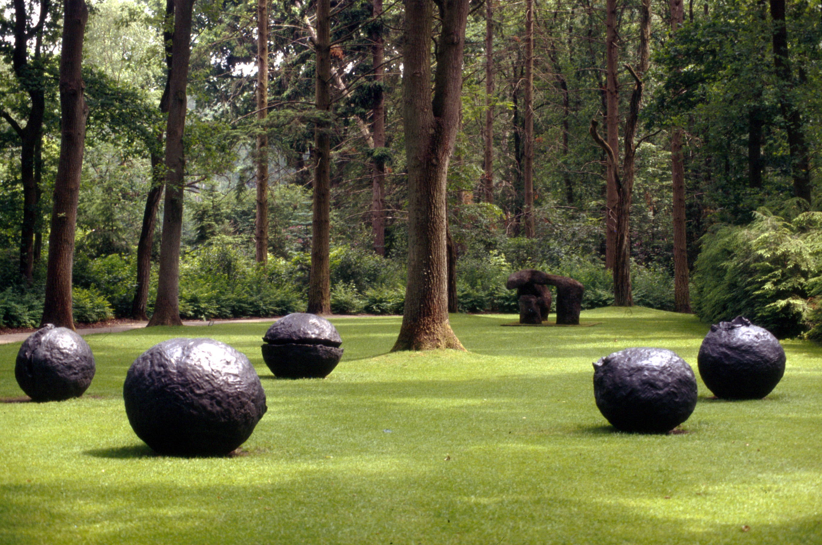 Sculptures in the Kröller-Müller Museum